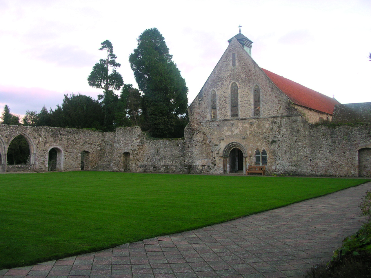 Beaulieu Abbey, Hampshire, England. Beaulieu parish church at the abbey. Early November 2007.